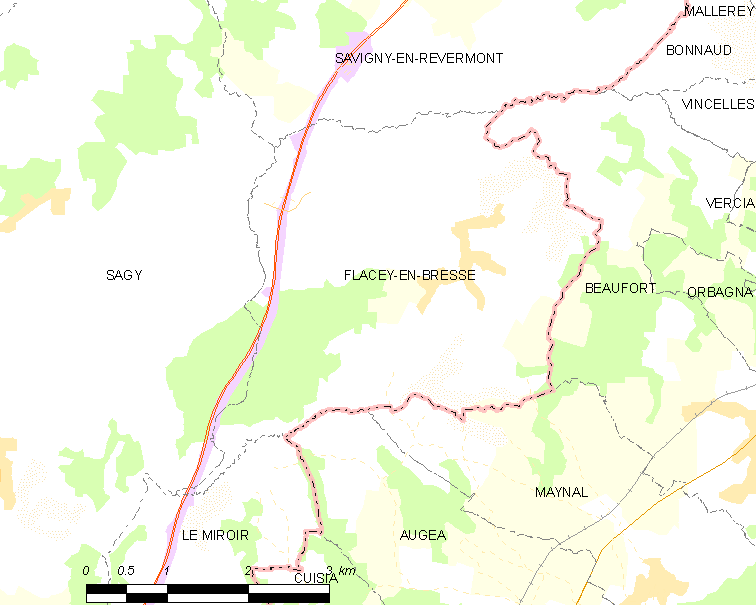 Map of French municipality